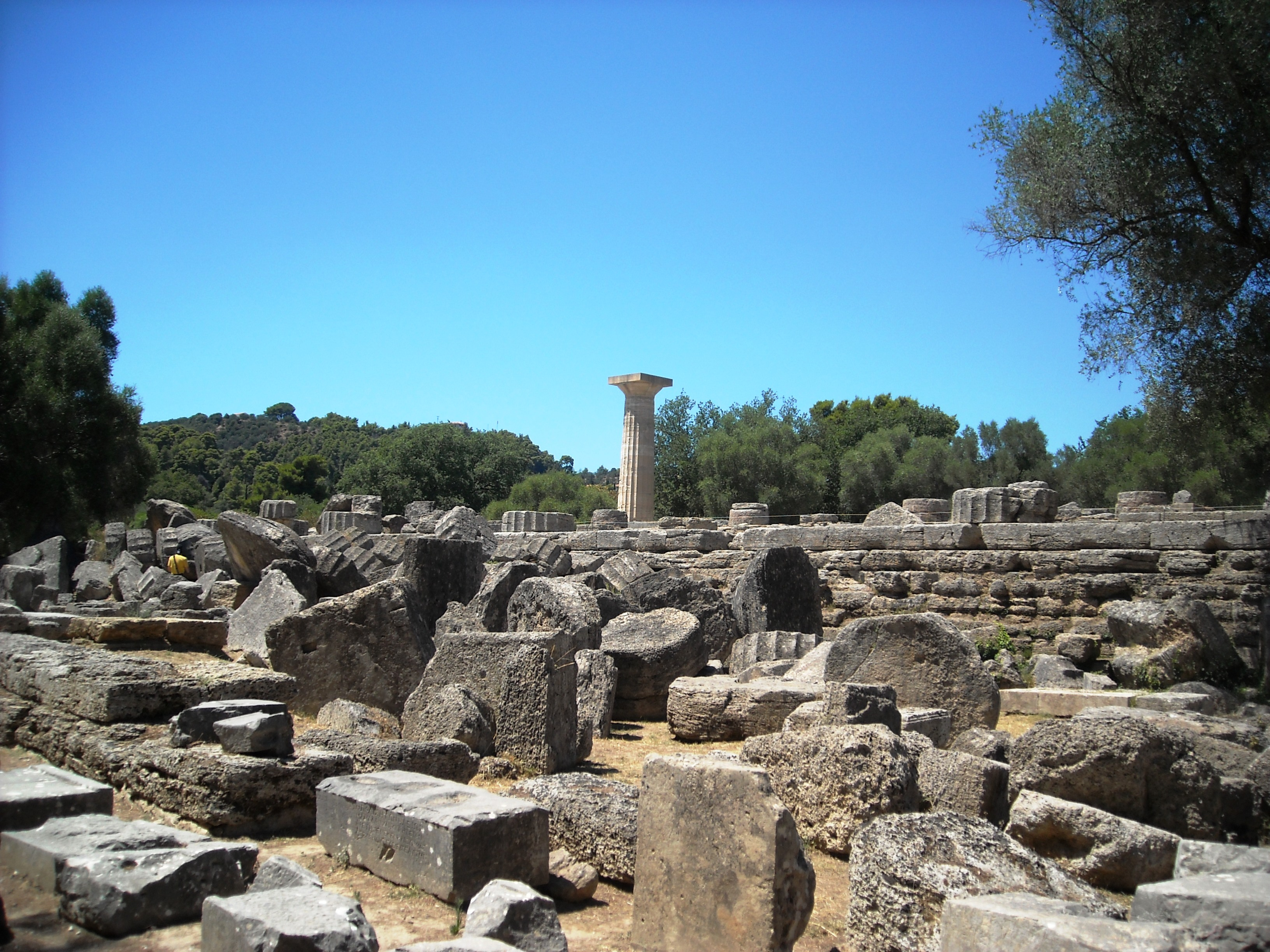 Temple of Zeus, Olympia